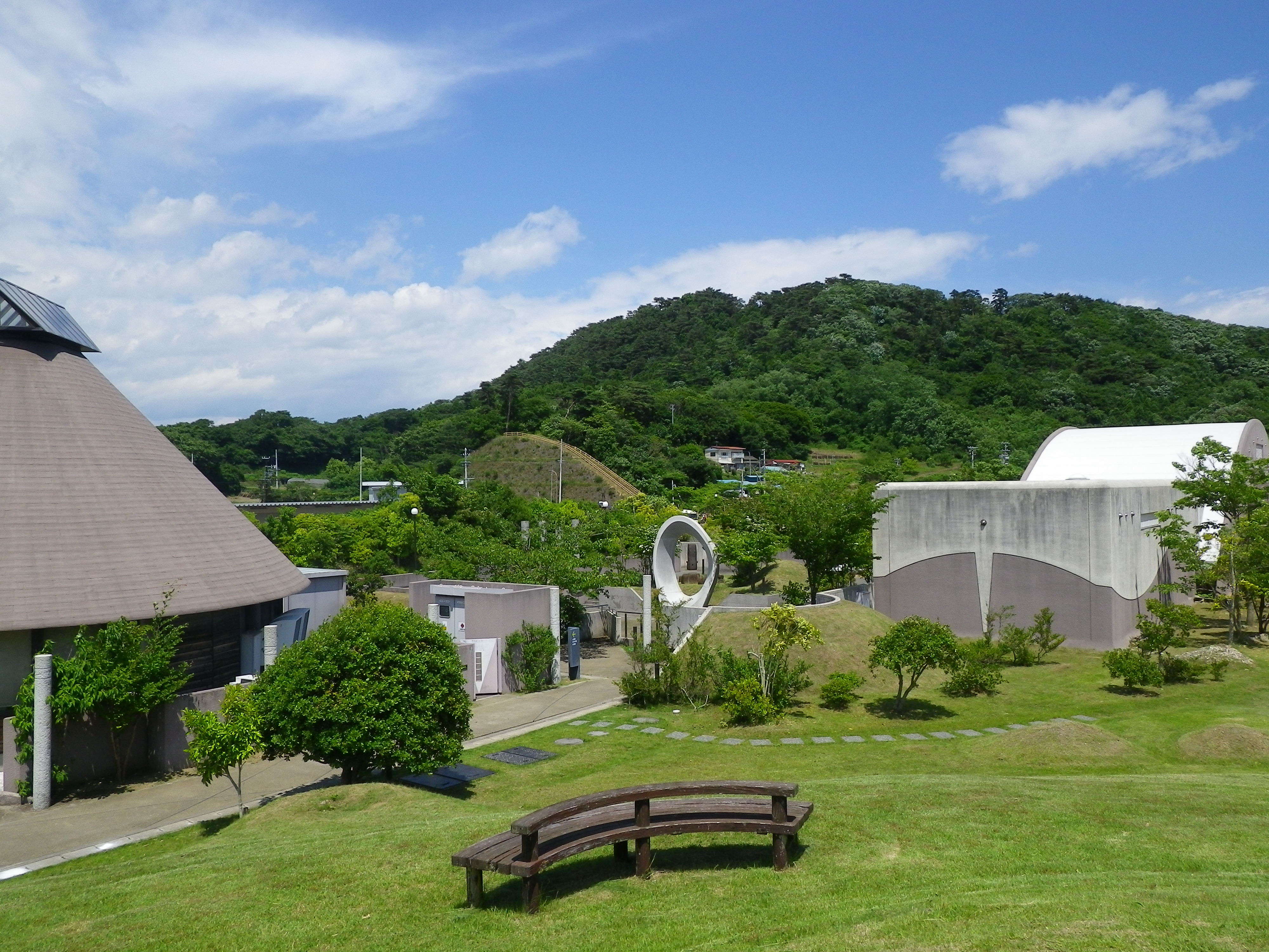 Mt. Ootakamori viewed from the Historical Museum of Jomon Village OkuMatsushima